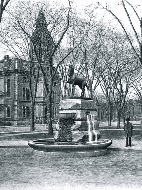 Waterbury (Connecticut): The Welton Fountain (or "Horse on the Green") and the old City Hall. Before 1897.